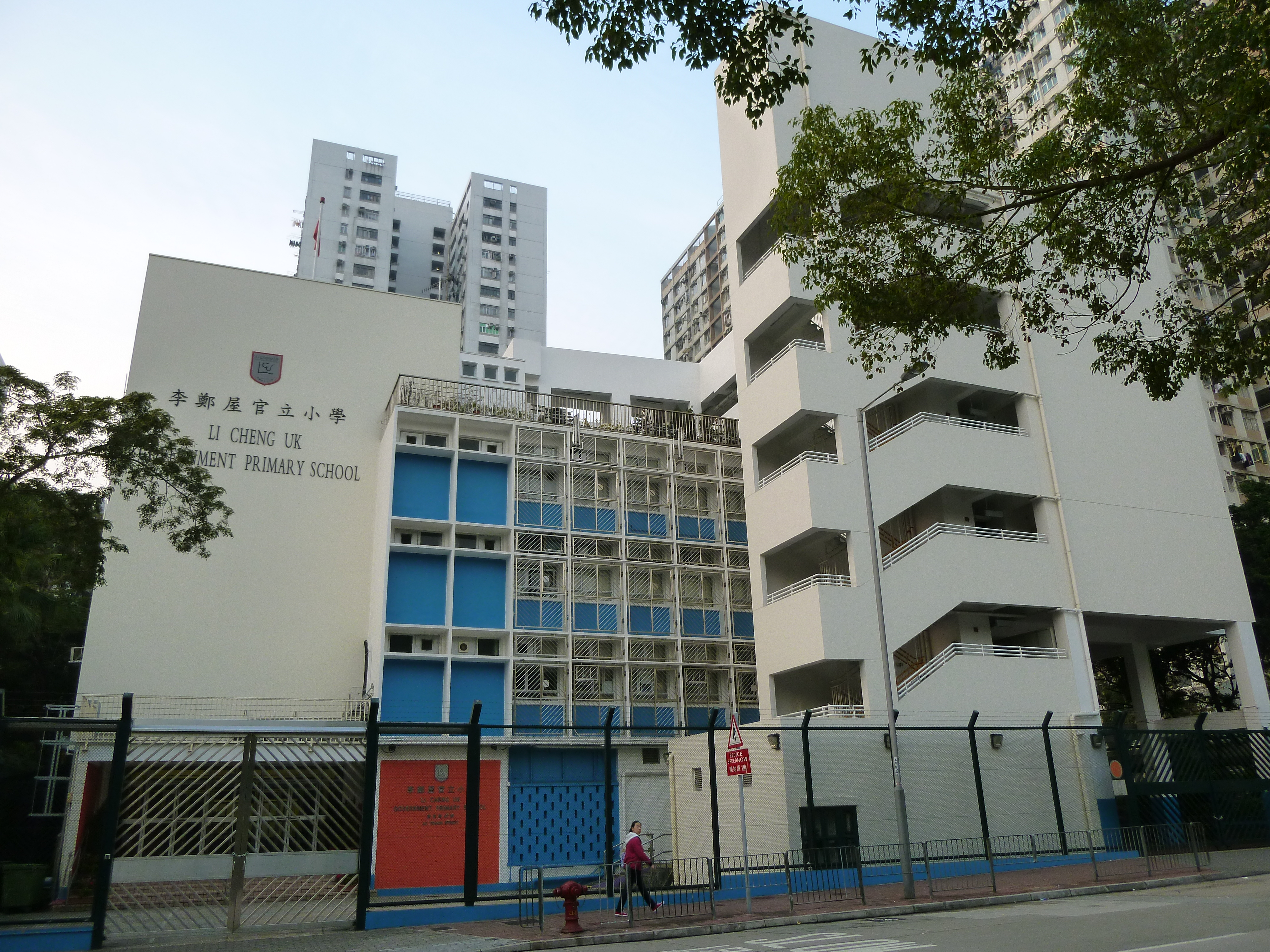 Li Cheng Uk Government Primary School